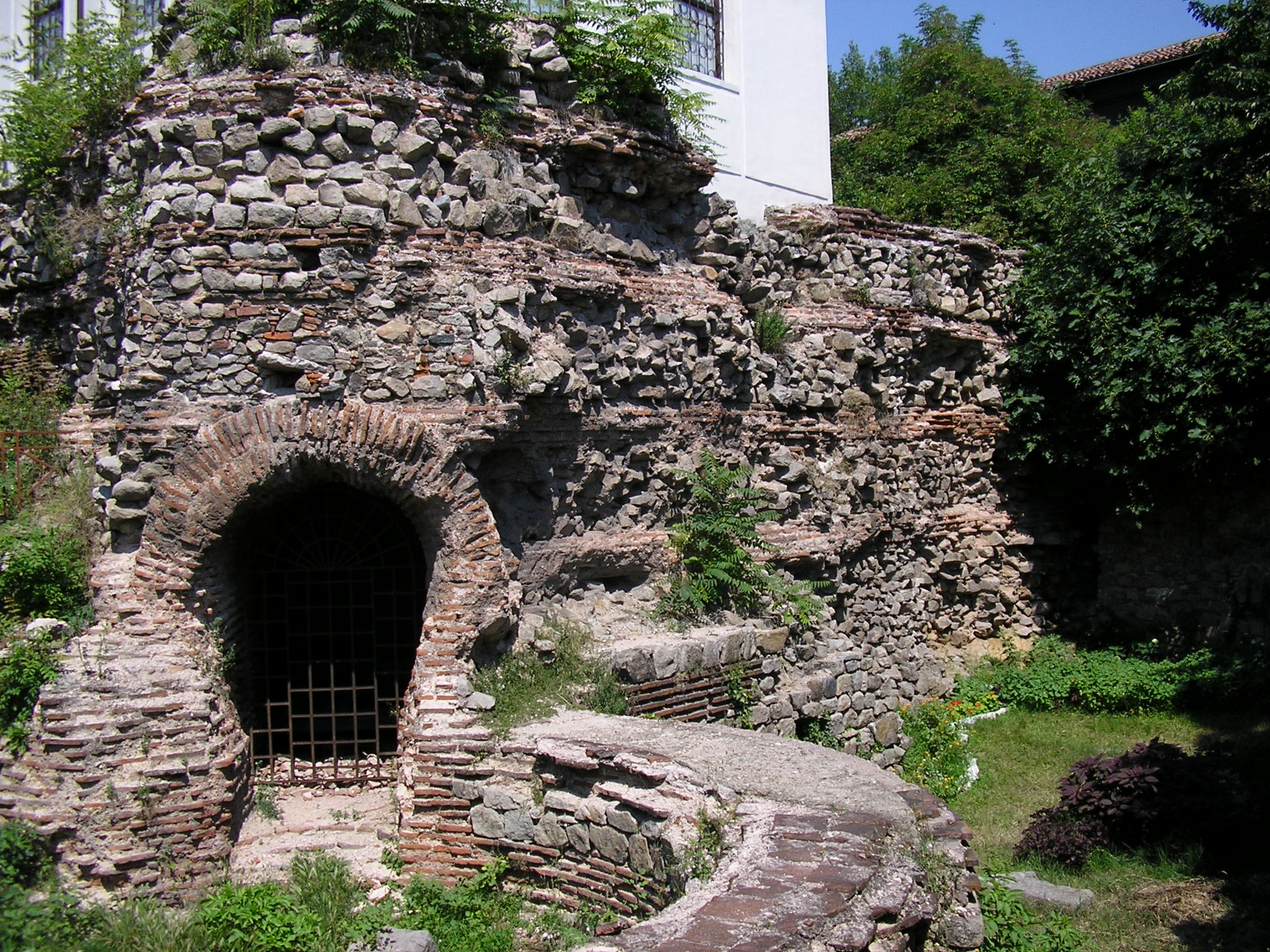 Round tower of Philippopolis's fortification